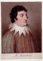 Mr Kearsbury, hand coloured copper engraving of the English actor William Keasberry (1726-1797).